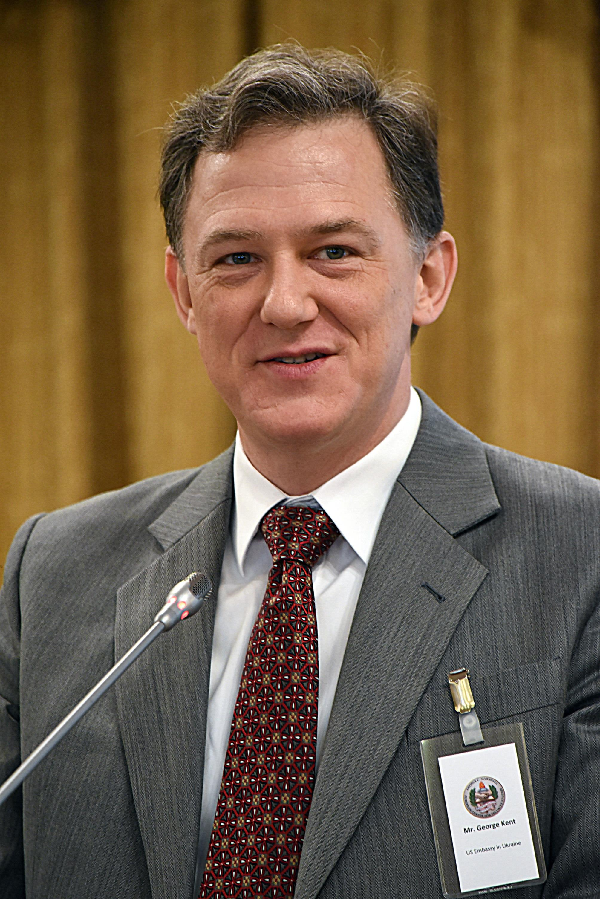 George P. Kent in 2017